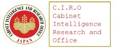 Official logo of the Cabinet Intelligence and Research Office.